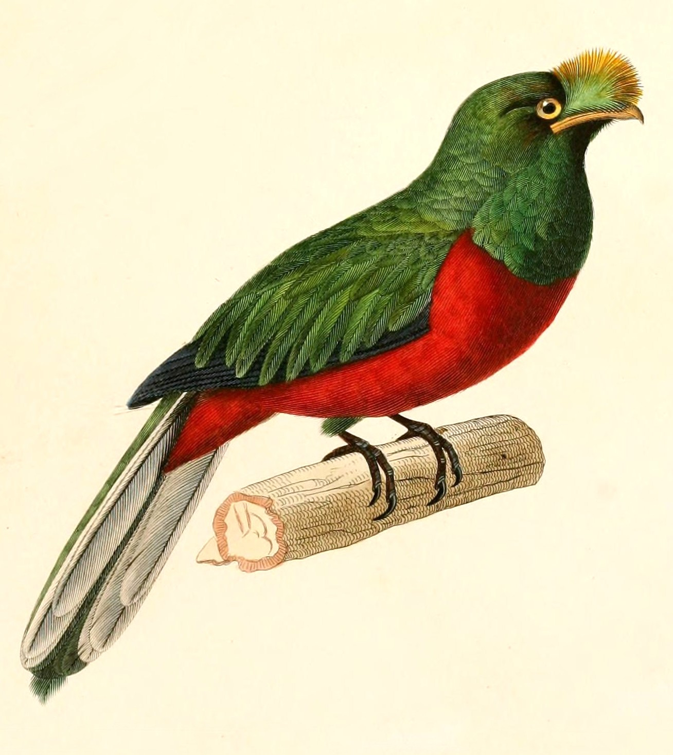 « Trogon antisianus » = Pharomachrus antisianus (Crested Quetzal)